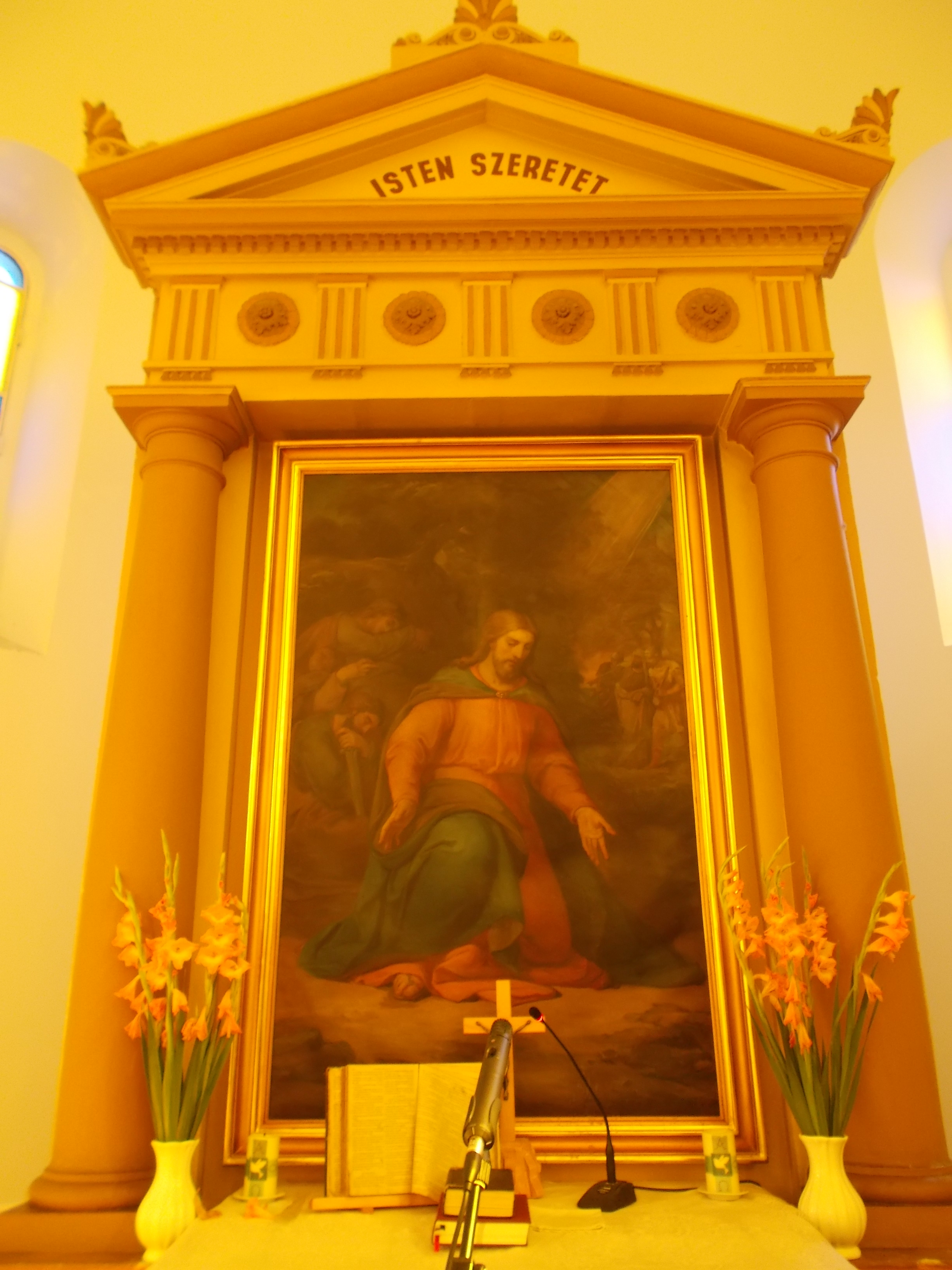 Evangelical church. Listed ID -1482. Neo-Gothic style. It was designed by Otto Sztehlo architect. The church was consecrated in 1896. - Szabadság Sq., Cegléd, Pest County, Hungary